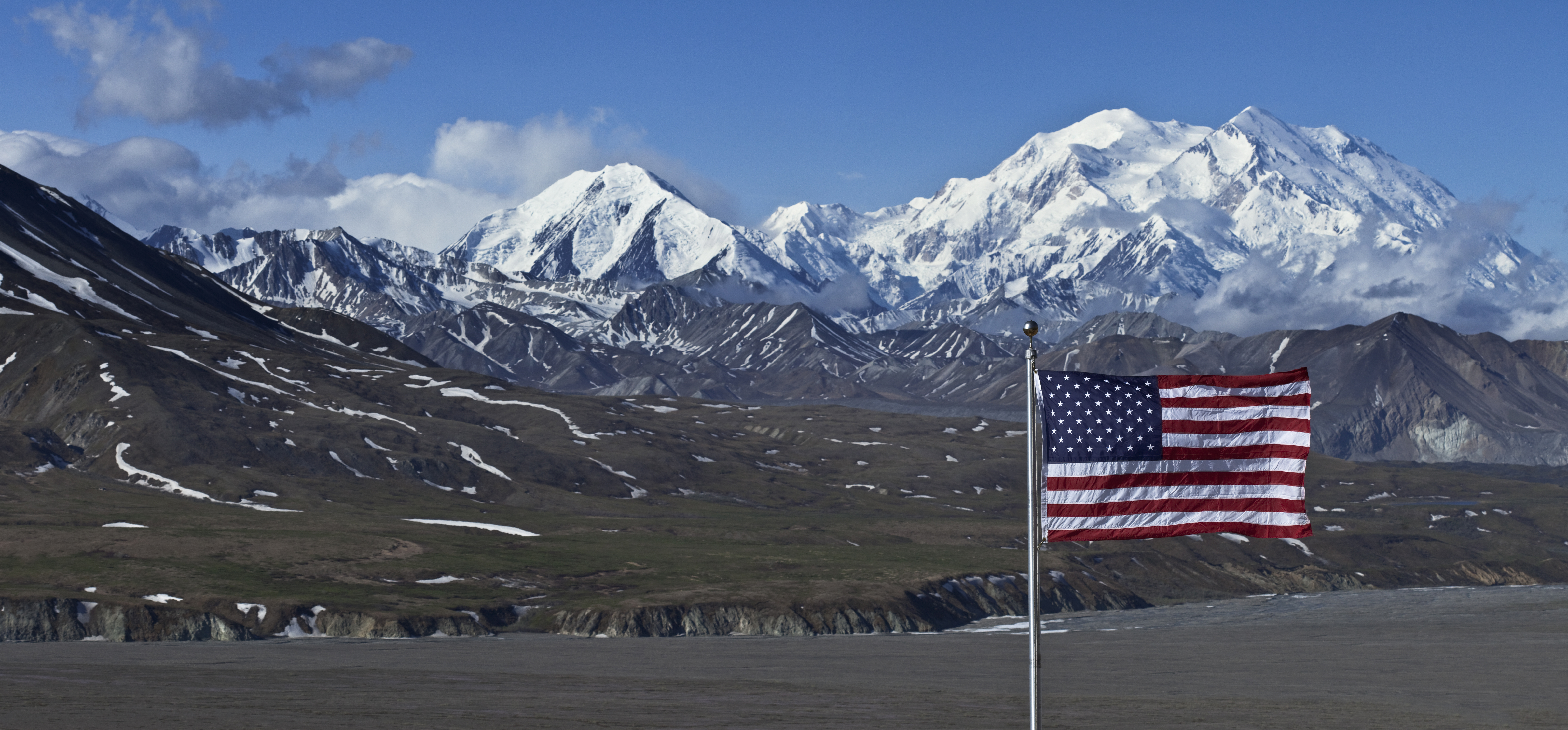 (NPS Photo/Jacob W. Frank)